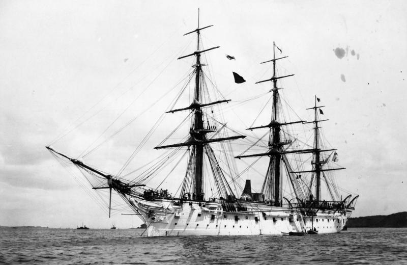 S.M.S. Stein Information added by Wikimedia users.